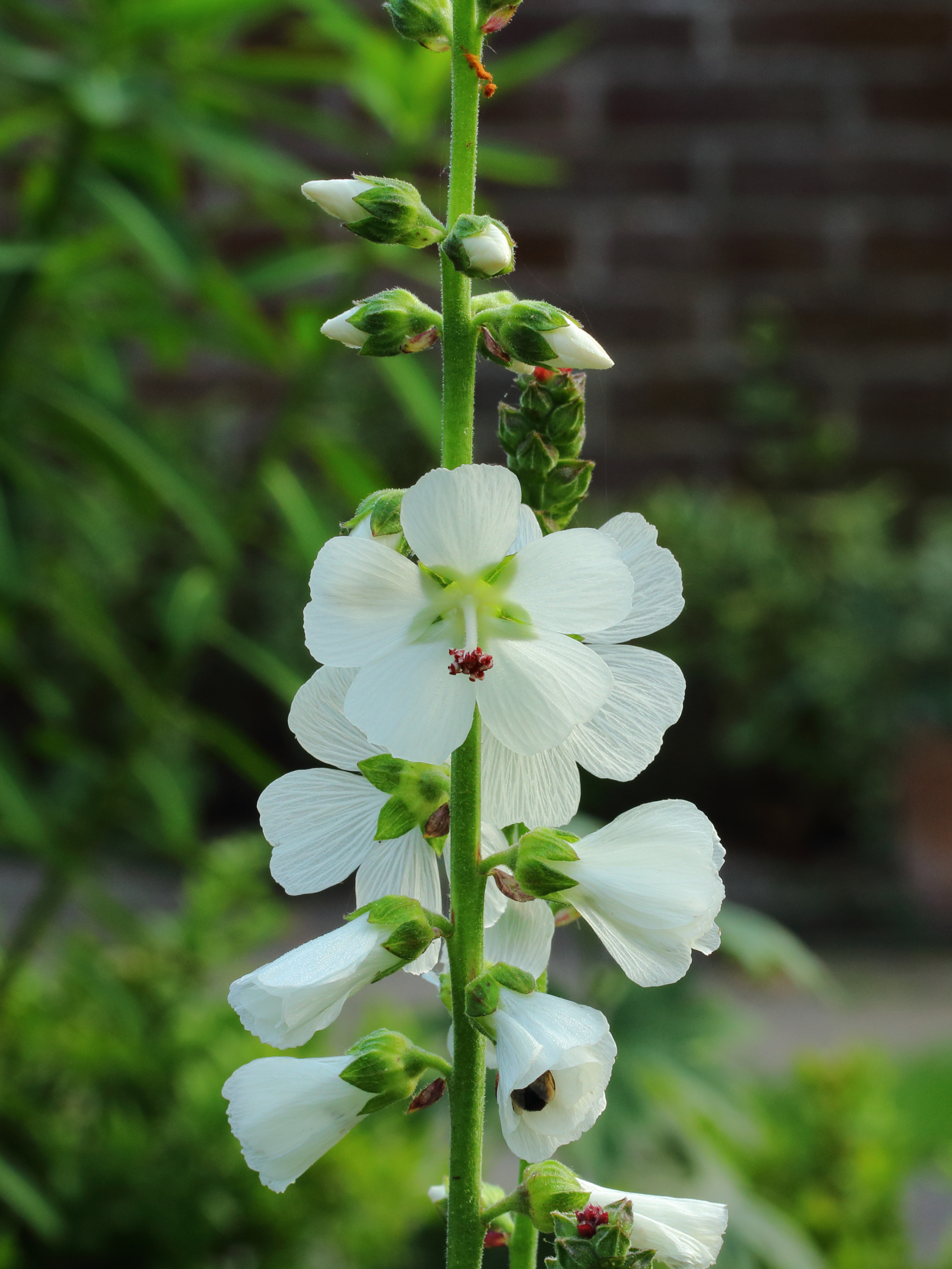 Sidalcea candida ´Bianca´.for a place in the sun.